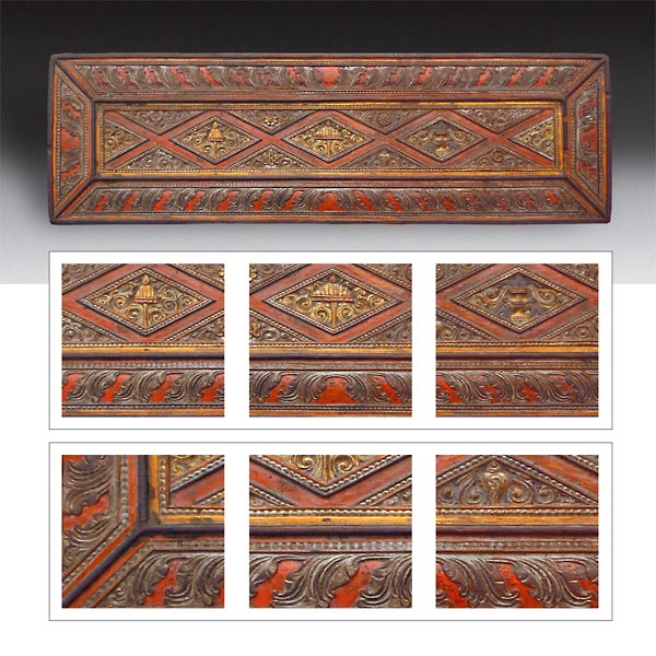 15/16th century carved manuscript cover. An excellent example of the Tibetan carvers art with simple designs containing sacred elements. Sculpted and lacquered, this manuscript cover has stupas and canopies within geometric designs. Primary to this woodcarvings rich appointment of iconography, are the auspicious symbols including: the "Precious Umbrella" that symbolizes the wholesome activity of preserving beings from harmful forces; the "Victory Banner" that celebrates the activities of one's own and others' body and mind over obstacles, as well as the "Vase of Treasure" holding and endless reign of wealth and prosperity.